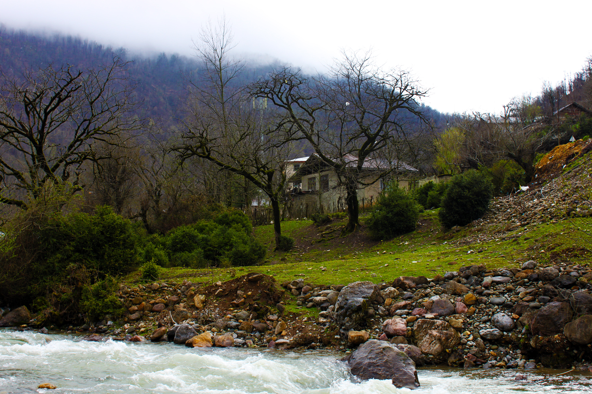 Masal (Persian: ماسال, also Romanized as Māsāl; also known as Bāzār-e Māsāl, Masal-Bazar, Sar-i-Bāzar, and Sārī Bāzār Mūsār)[1] is a city in and the capital of Masal County, Gilan Province, Iran. At the 2006 census, its population was 10,992, in 2,986 families.